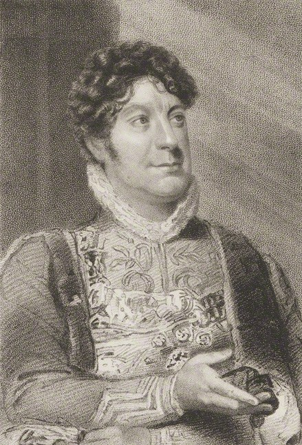 Portrait of Charles Farley (1771–1859), English actor and dramatist.